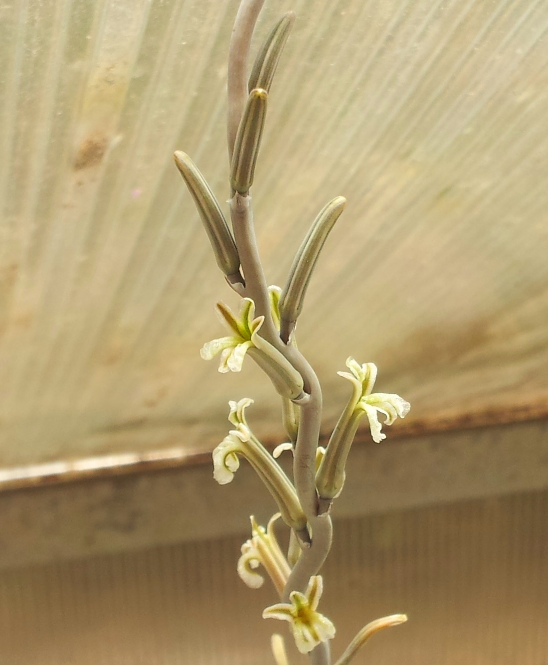 Haworthia bruynsii - detail of inflorescence